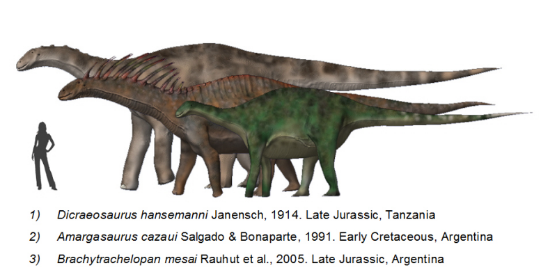 Dicreosaurids drawn to scale. Digital. The proportions match diagrams by palaeontologists Gregory S. Paul (The Princeton Field Guide to Dinosaurs, 2010, p. 187-188)